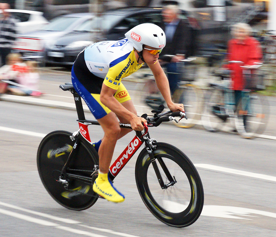 Michael Færk Christensen (DEN) during Tour of Denmark/Post Danmark Rundt 2009, stage 5 (timetrial 15,5 km)